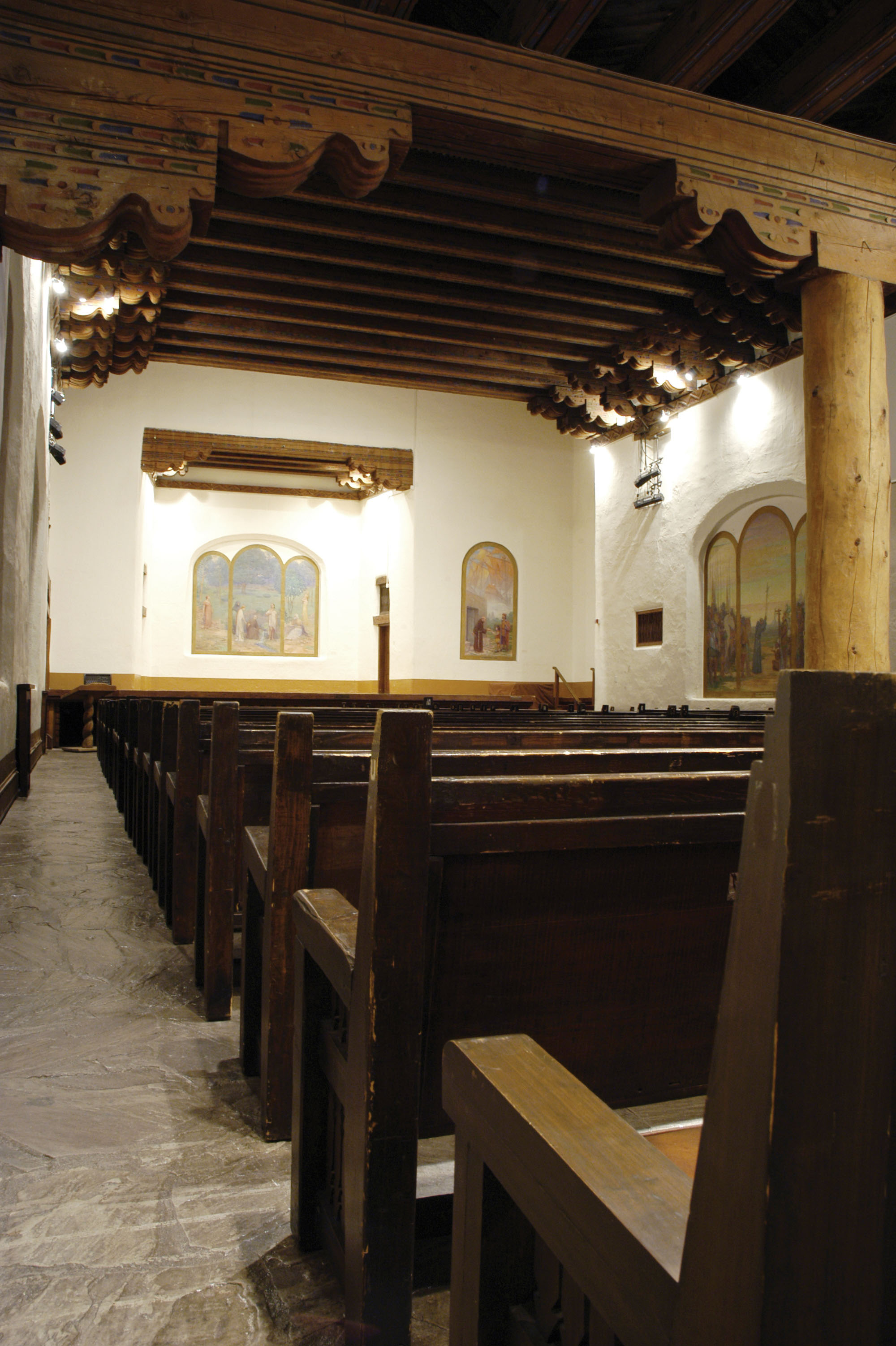 interior of St. Francis Auditorium of the New Mexico Museum of Art